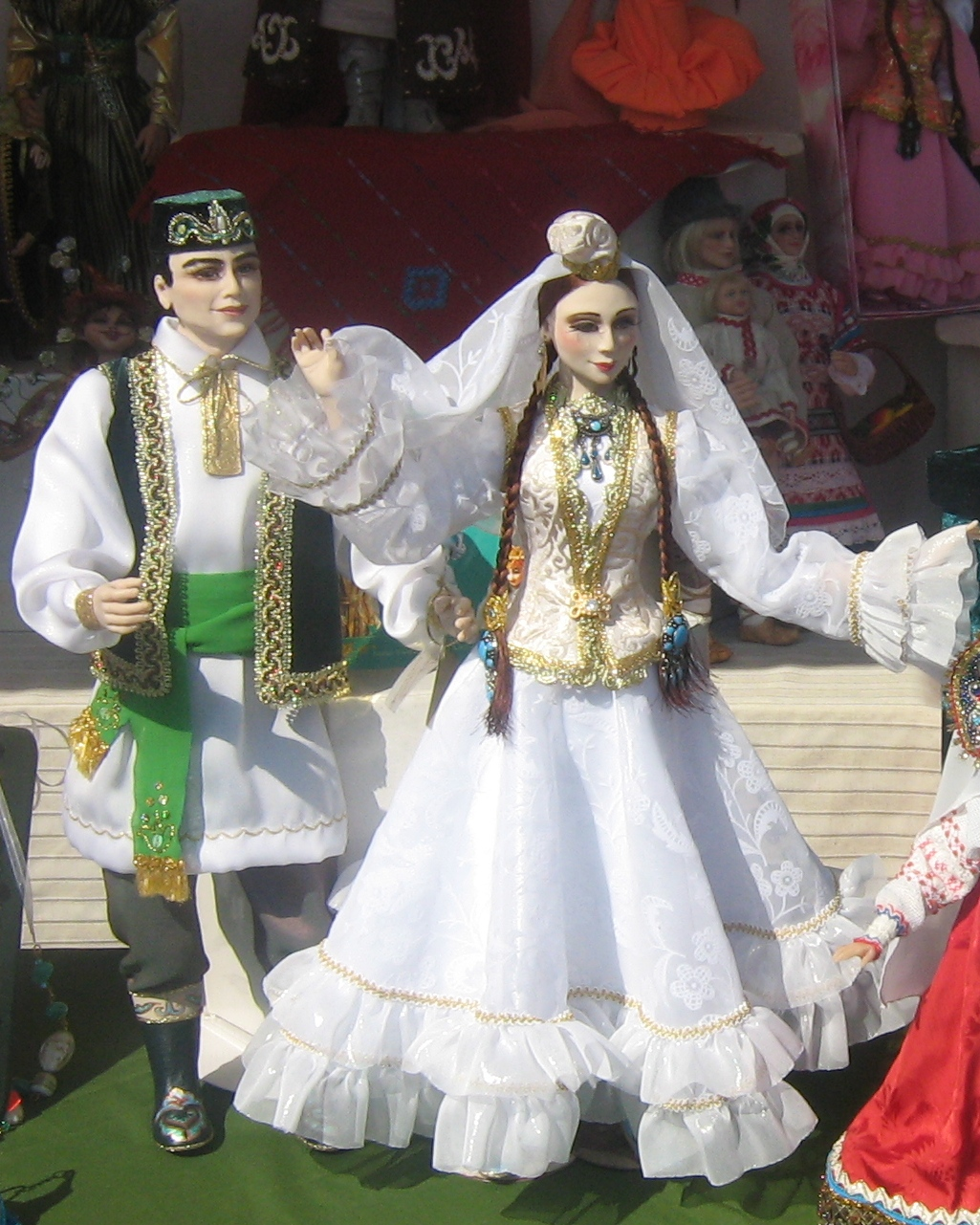 Tatar dolls: bride and groomТатарча/tatarça: Татар курчаклары: кияү белән кәләш